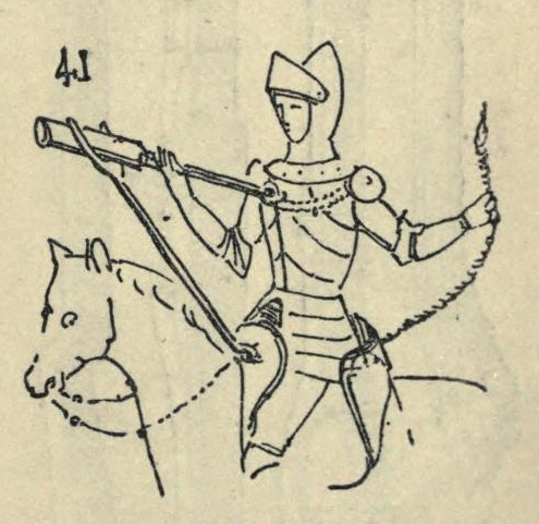 Hand cannon for a knight, called a petronel, from a manuscript in the ancient library of Burgundy. The articulated plate armour is characteristic of the latter half of the fifteenth century, though the bassinet has a movable vizor. These hand cannons were in use at the same time as the serpentine arquebuse, and even as the flint and steel arquebuses and muskets, i.e. till the beginning of the sixteenth century, as may be seen from the drawings, by Glockenthon, of the arms of the Emperor Maximilian I. (1505).